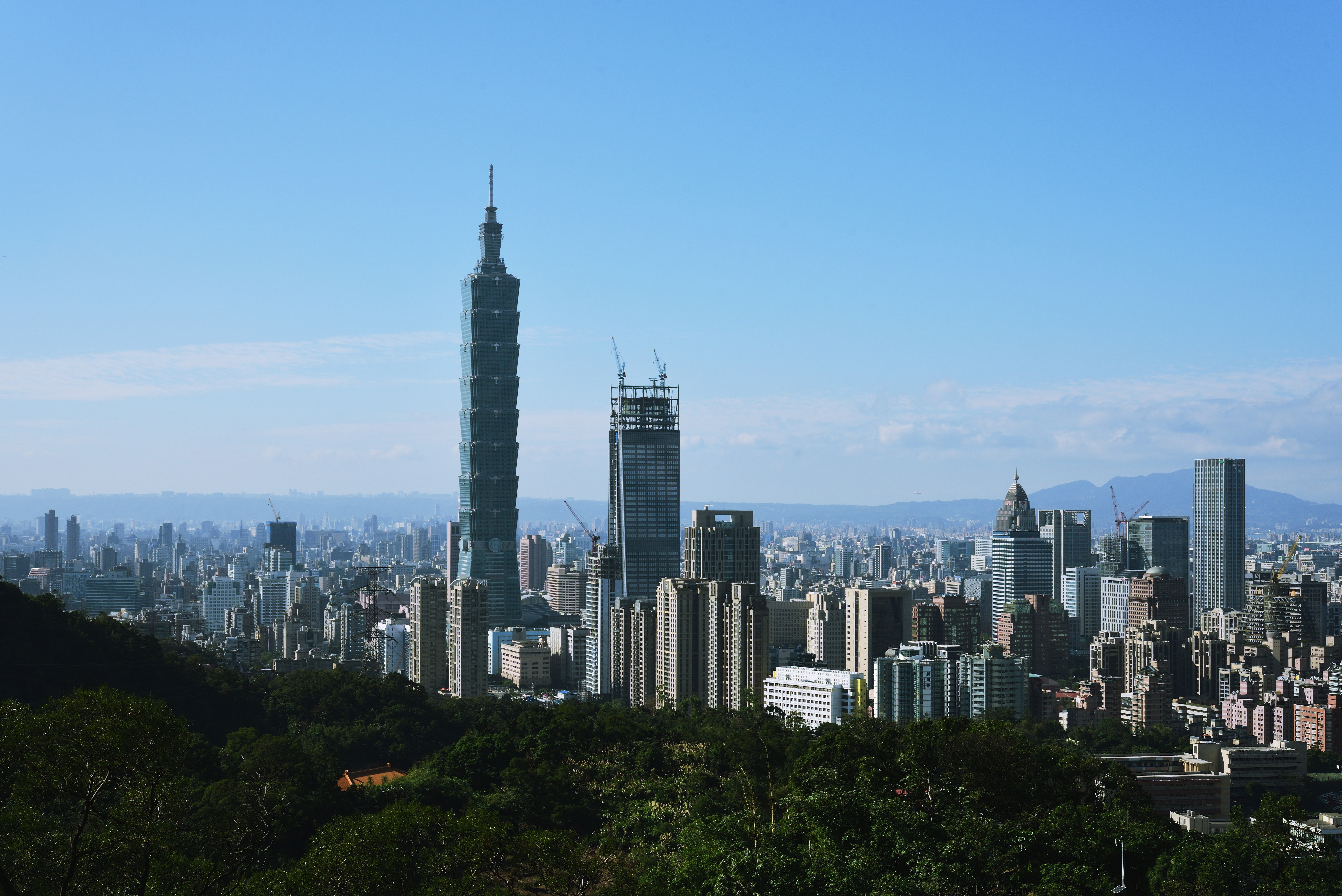 Taipei, Taiwan panoramic skyline in 2016